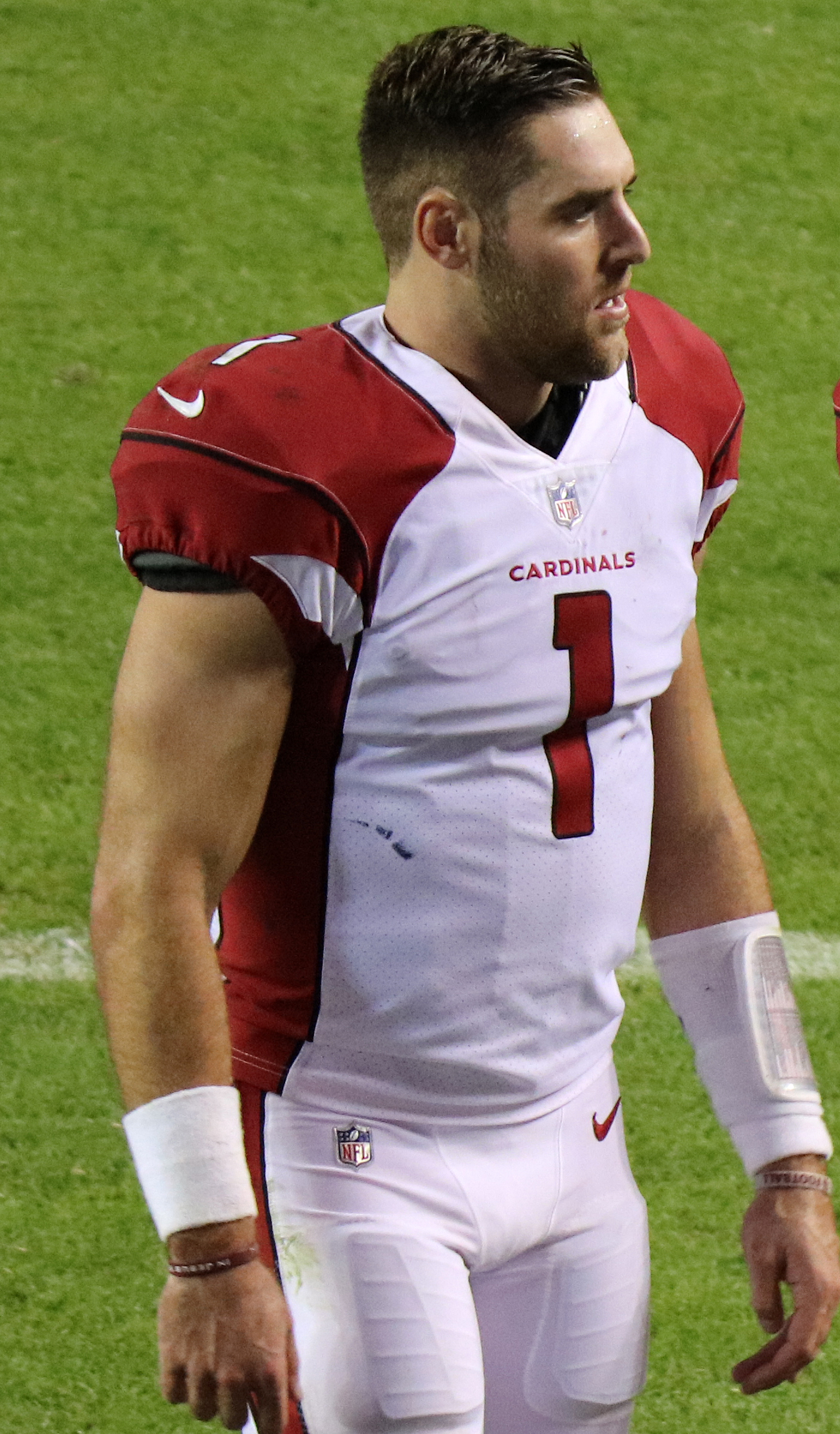 Trevor Knight, a player on the National Football League.